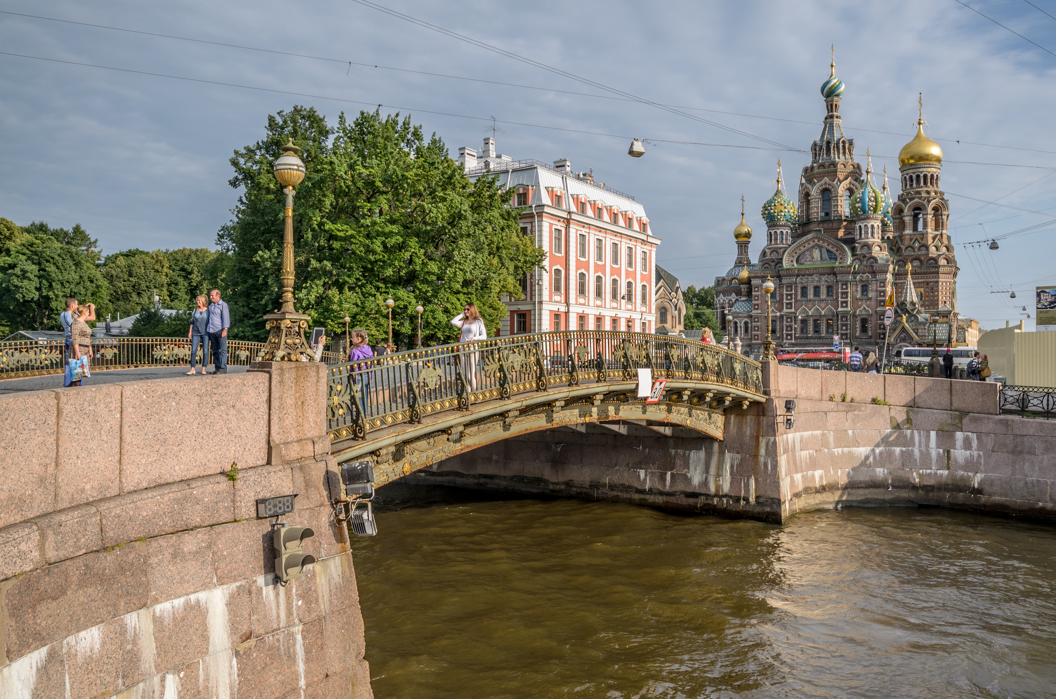 Malo-Konushenniy Bridge in Saint Petersburg